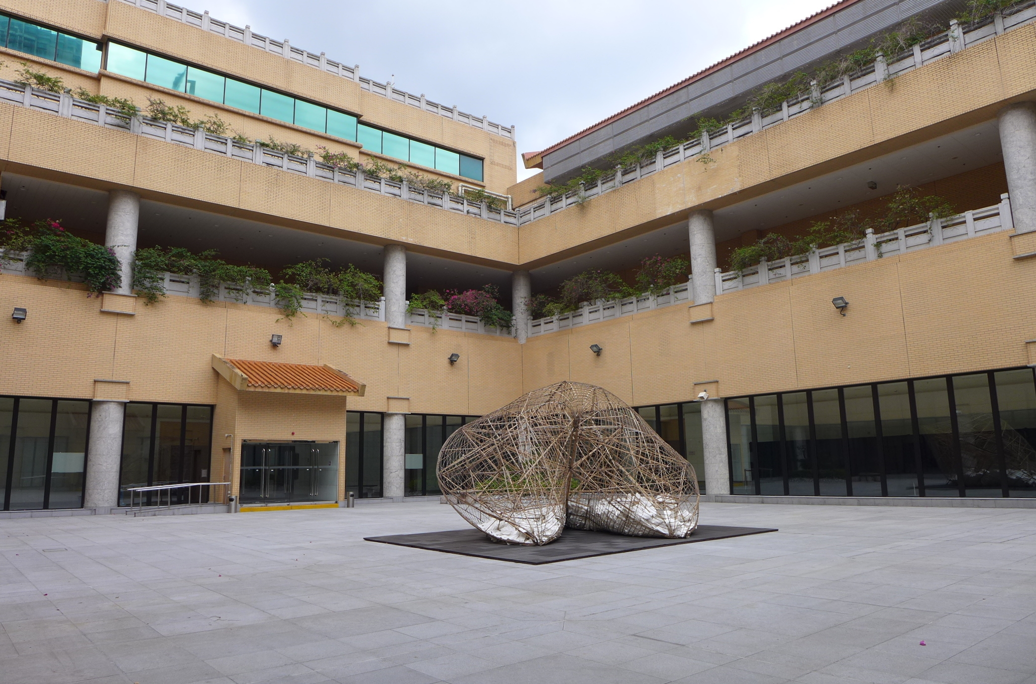 HKHM Courtyard